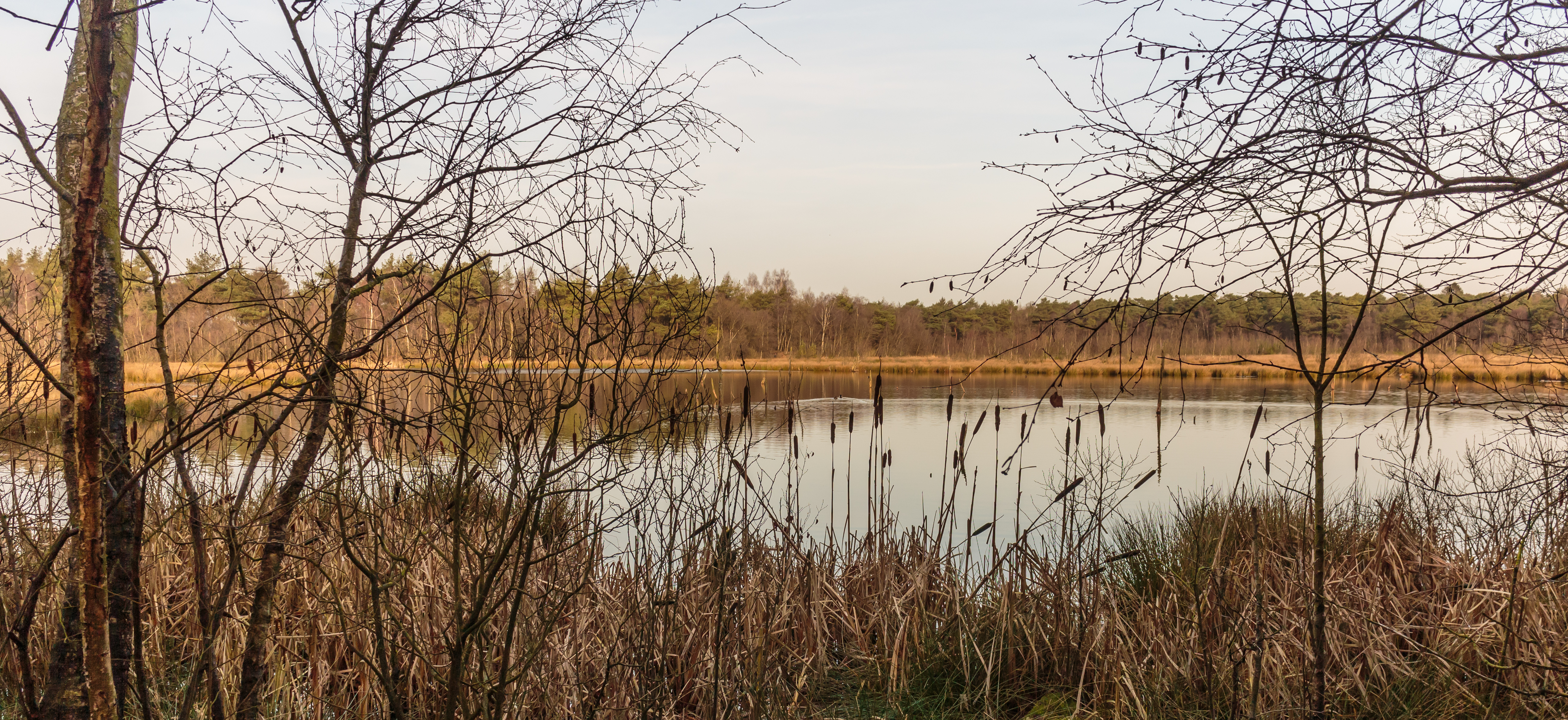 Diakonievene. Nature of It Fryske Gea.